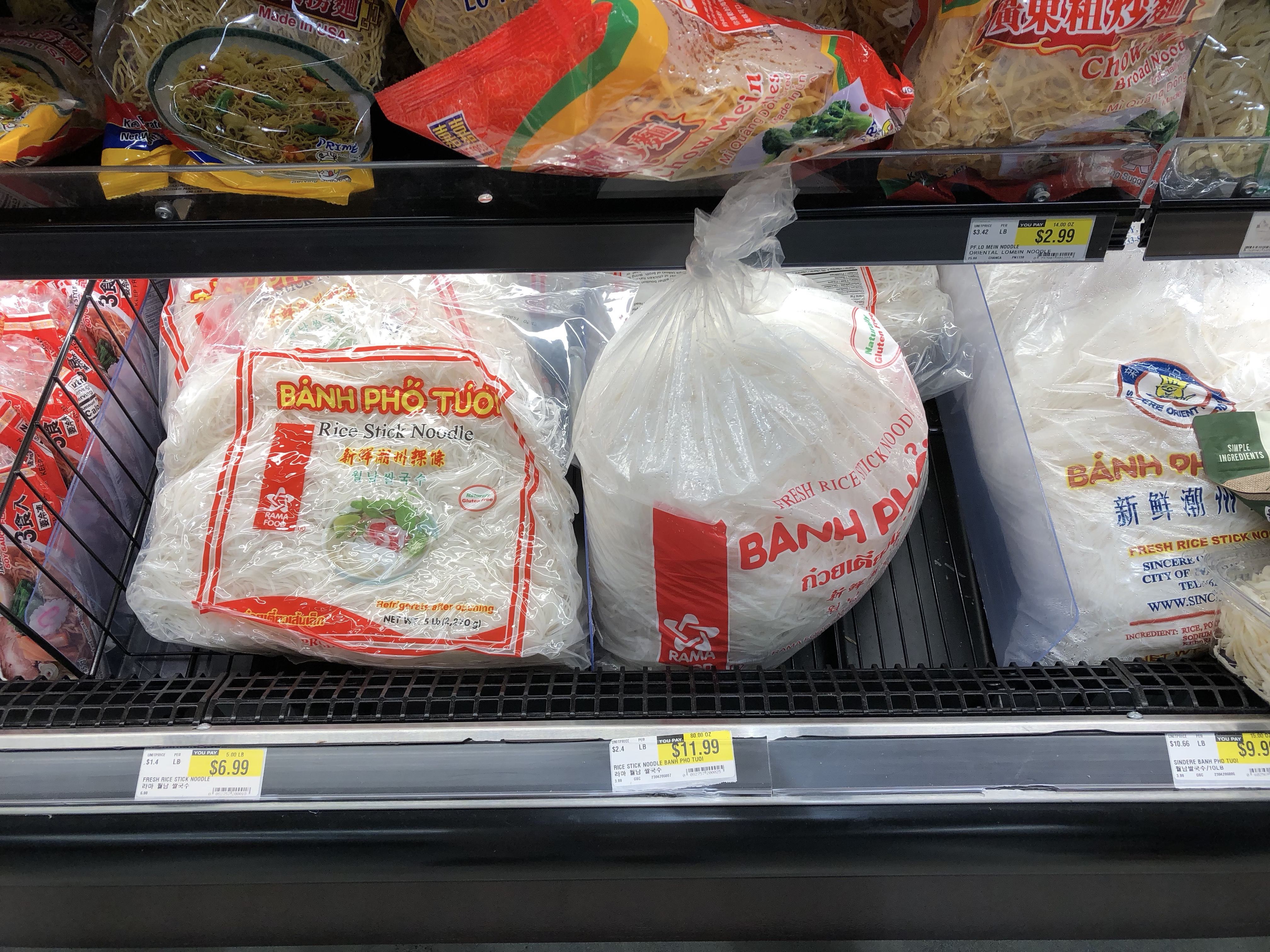 Bags of fresh pho noodles at H Mart in San Jose, California, United States.